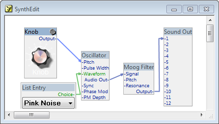 SynthEdit Software Synthesizer Version 1.1